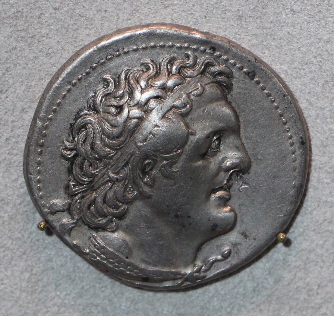 Ancient Greek coins in the Altes Museum Berlin